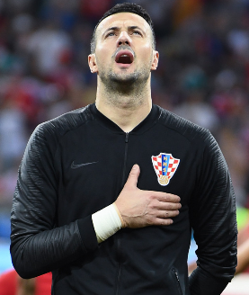 Luka Modrić, Danijel Subašić and Dejan Lovren line-up for Croatia before the game v Russia, 7 July 2018